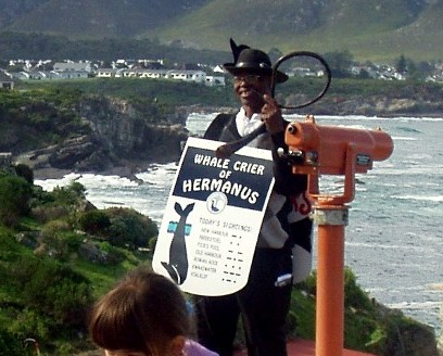 "Whale crier" announces whales to whale watchers in Hermanus, South Africa.